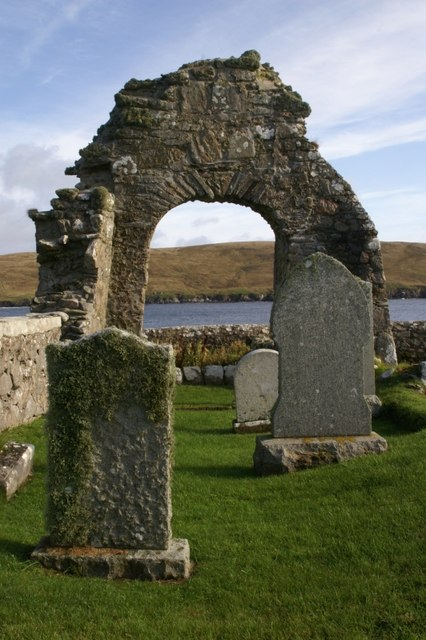 Remains of St Mary's Chapel